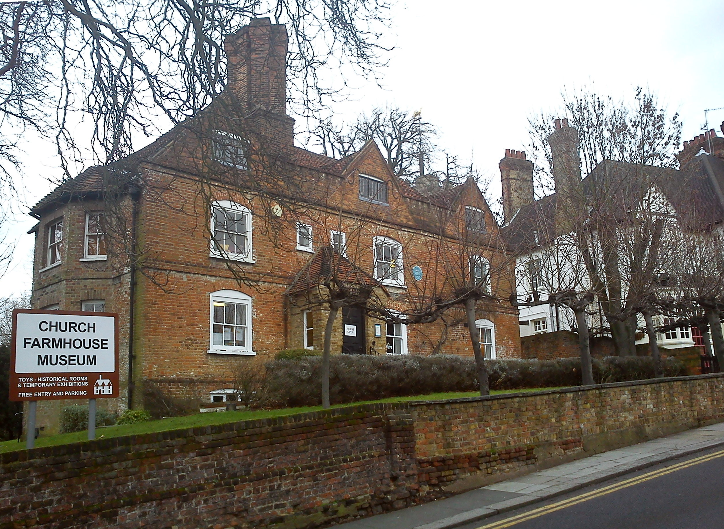 Church Farmhouse Museum, in Hendon, in the London Borough of Barnet sadly closed in March 2011 by the Council philistines and now for sale to the highest bidder